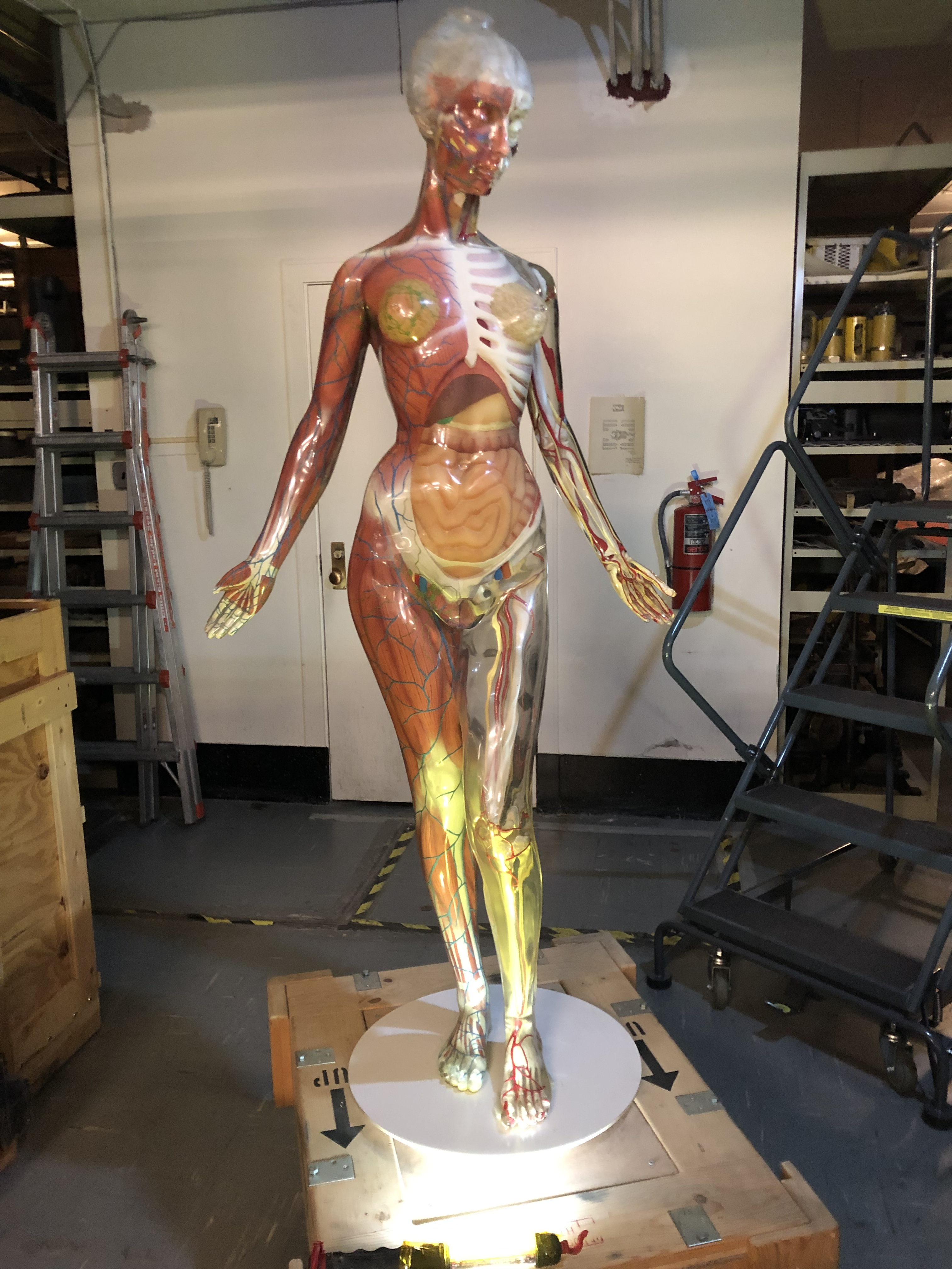 Transparent Anatomical Manikin in the collection of the Museum of Science and Industry, Chicago IL.